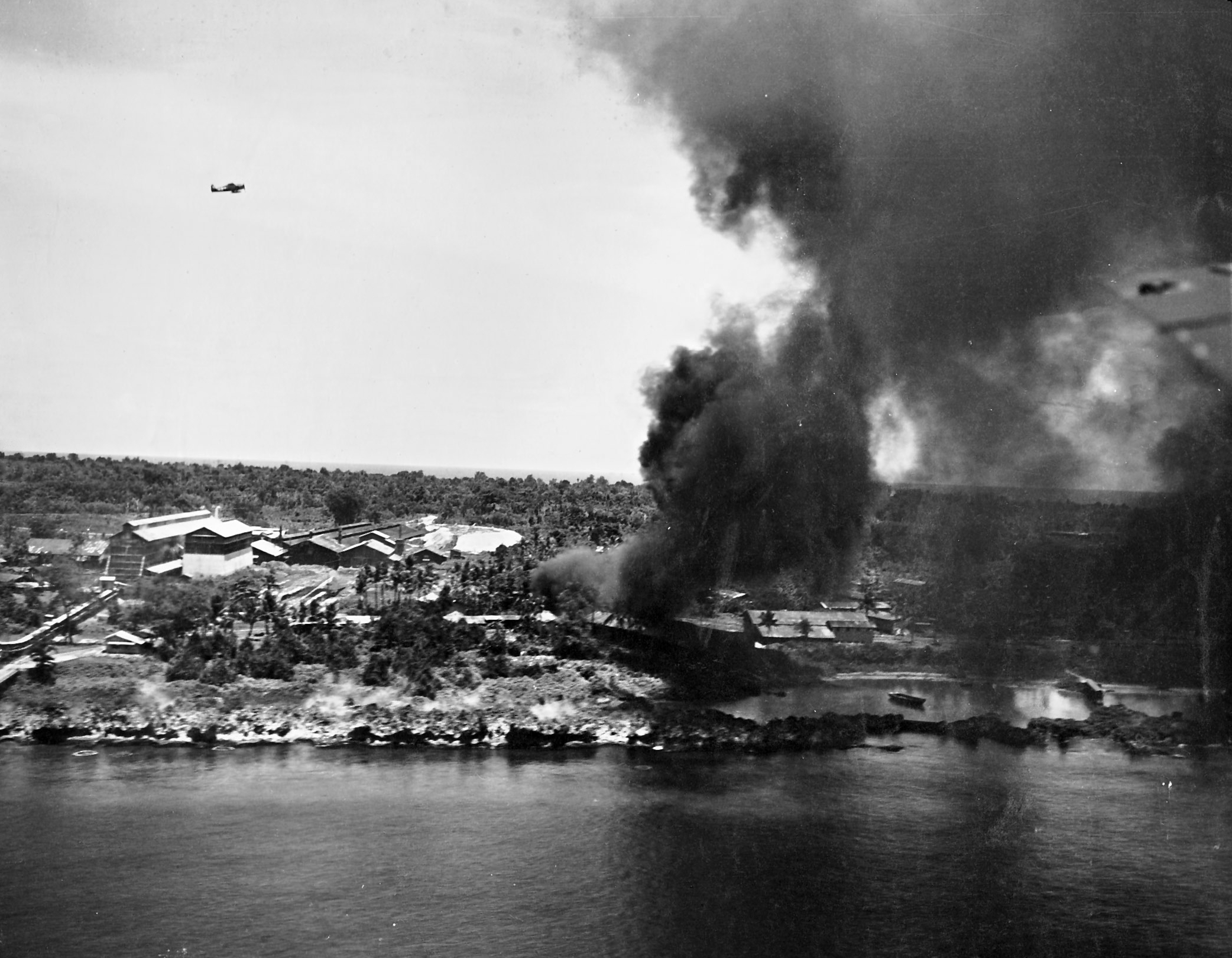 Strike photograph of U.S. Navy raid on Peleliu on 30 March 1944. Note the Grumman F6F Hellcat in the upper left.